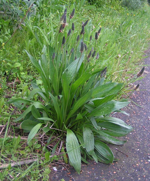 Ribwort Plantain, Plantago lanceolata photgraphed at Essex, England